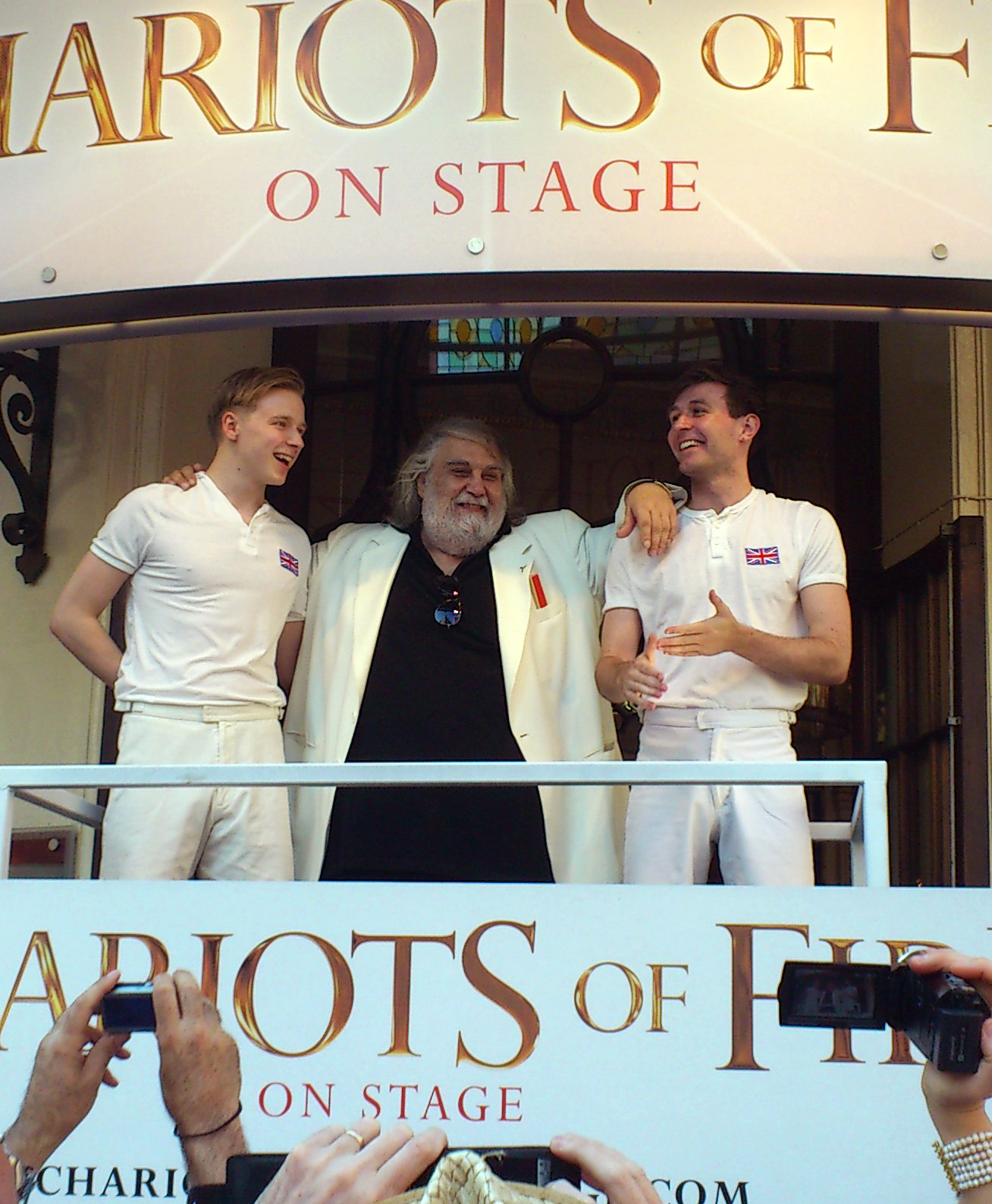 Jack Lowden, Vangelis, and James McArdle watch the Olympic Torch Relay from the Gielgud Theatre, 26 July 2012